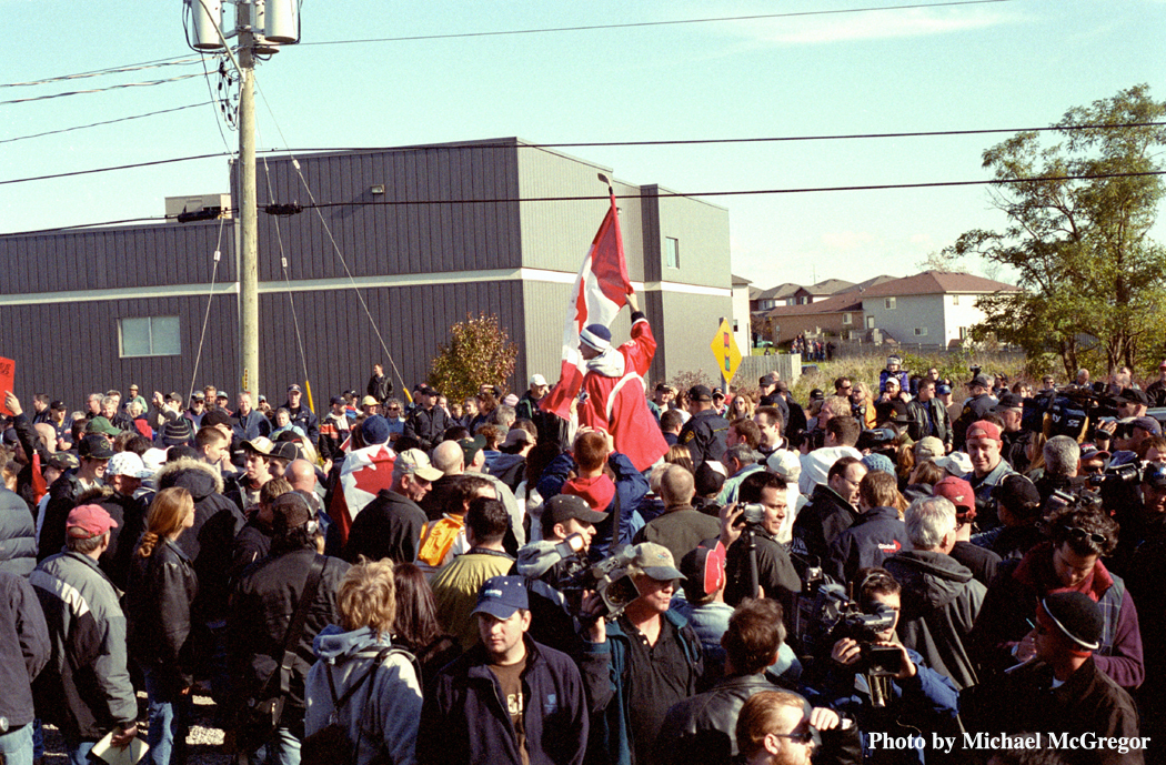 Anti-reclaimation protestors near the Douglas Creek Estates site on the afternoon of October 15 2006. Photo by Michael McGregor